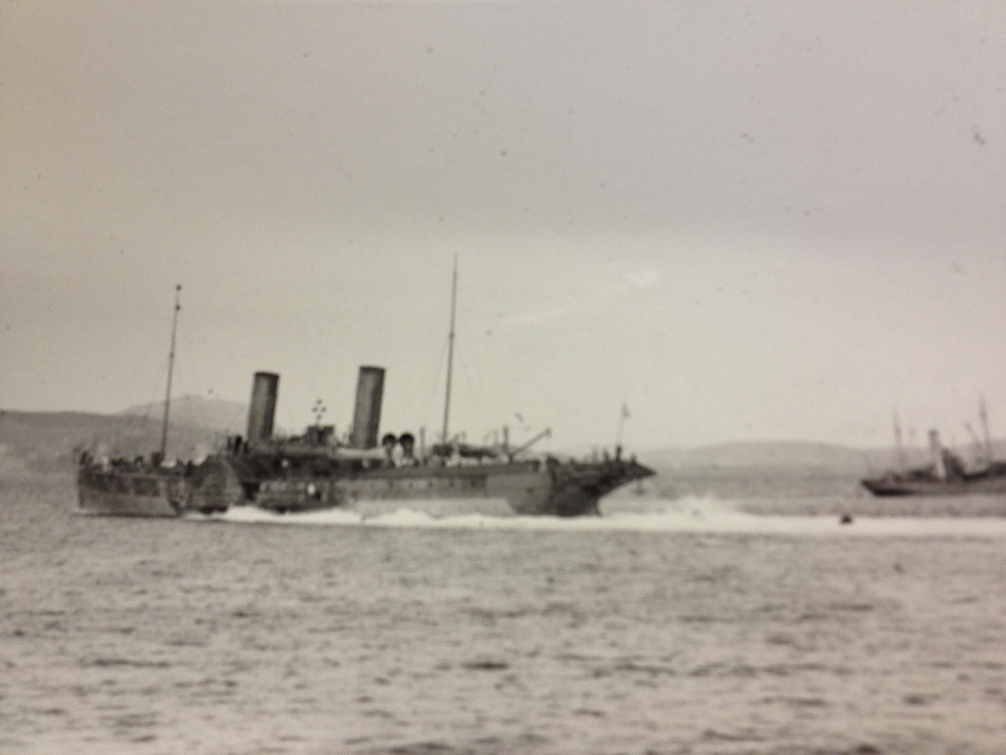 Isle of Man Steam Packet Company paddle steamer, Prince of Wales (re-named Prince Edward) on wartime service.